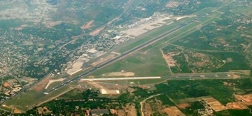 Aerial view of Chennai International Airport, Tamil Nadu, India.